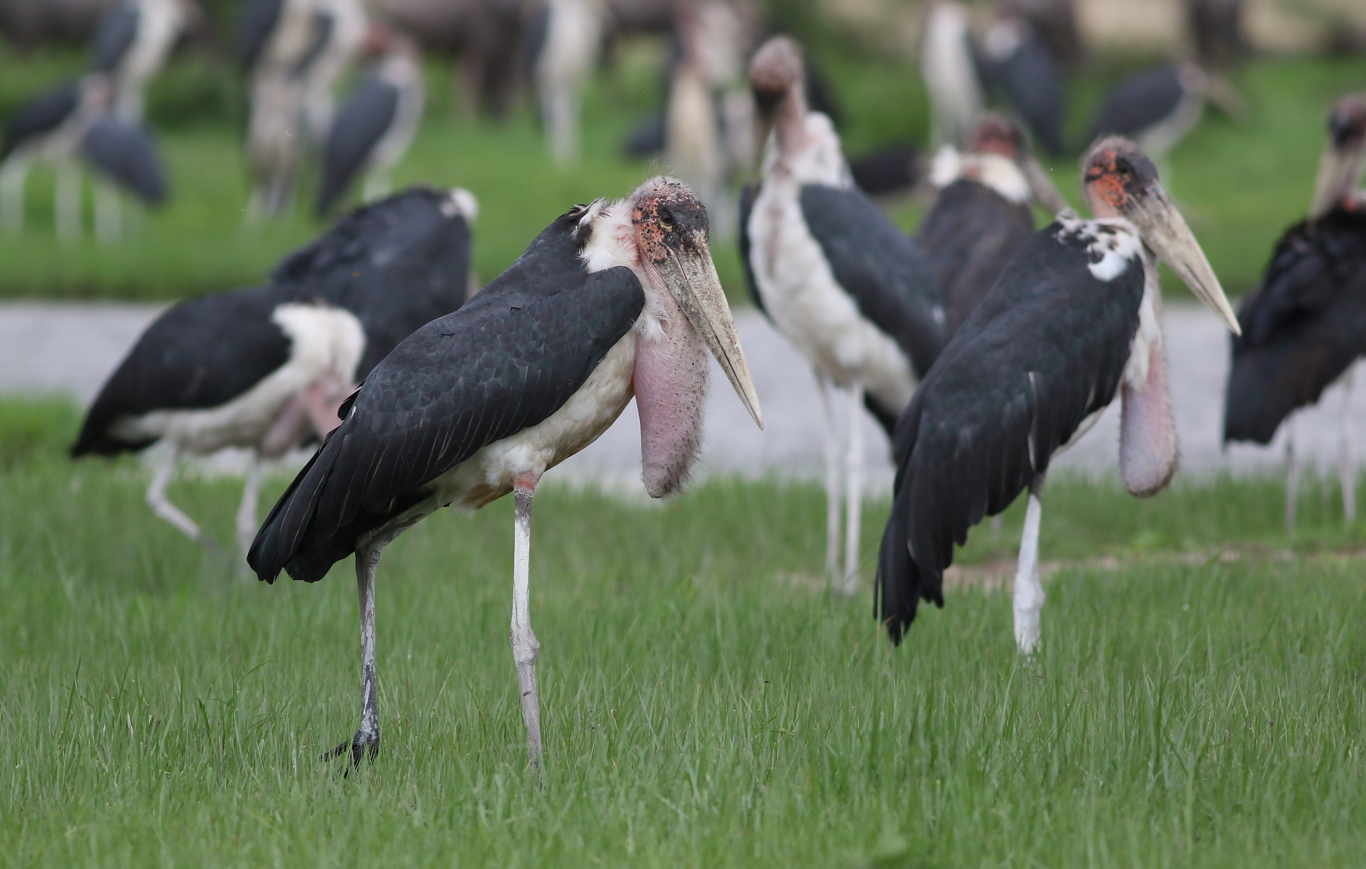 Marabou Stork, Leptoptilos crumeniferus, at the aptly named Marabou Pan, Savuti, Chobe National Park, Botswana